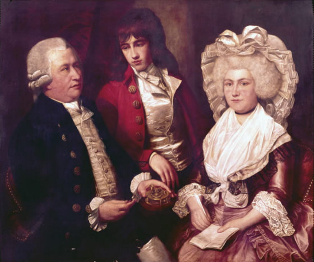 John Arnold (1736-1799), British clockmaker